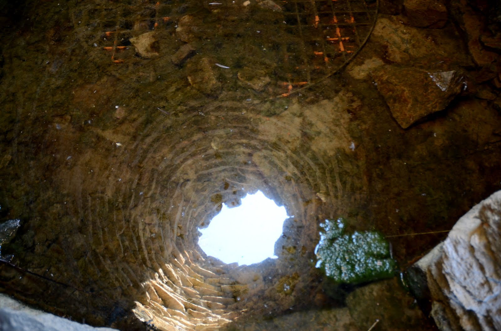 Funtana Coberta Sacred well: Base of Tholo with well mout - Ballao - Sardinia - Italy